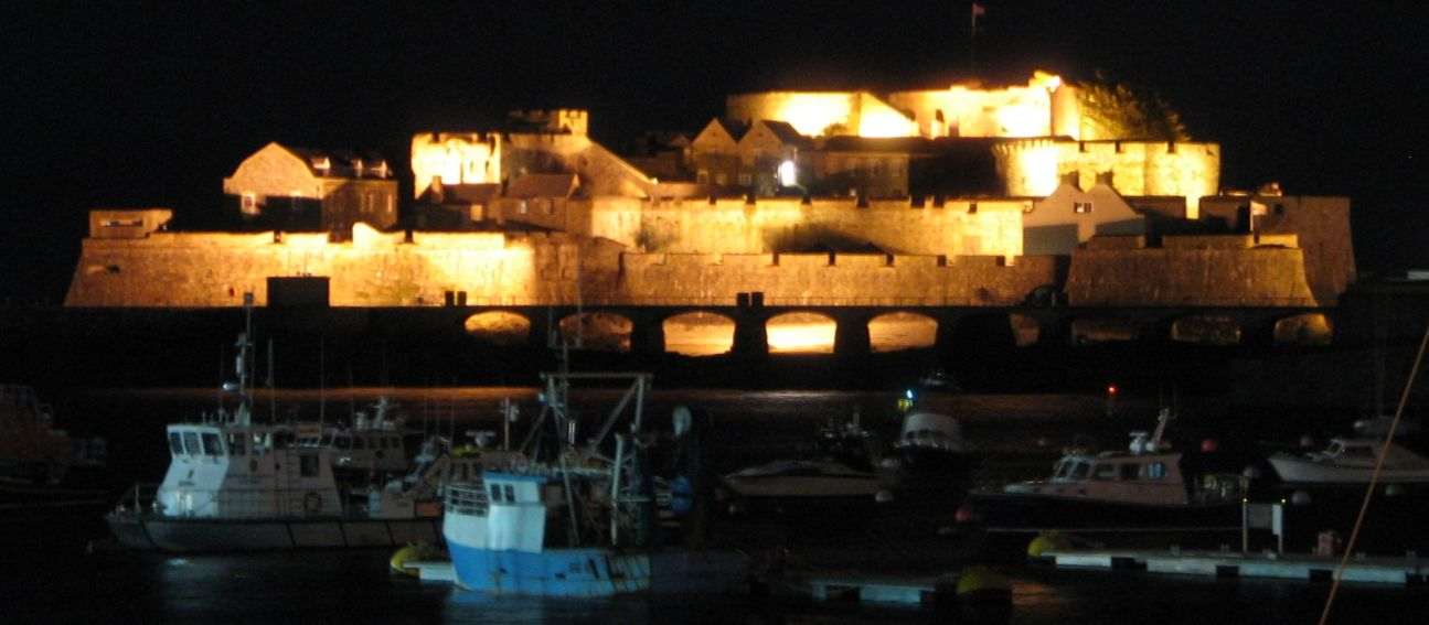 Castle Cornet viewed over boat harbour in St Peter Port, Guernsey, 9 April 2006. Photographed by Surgeonsmate